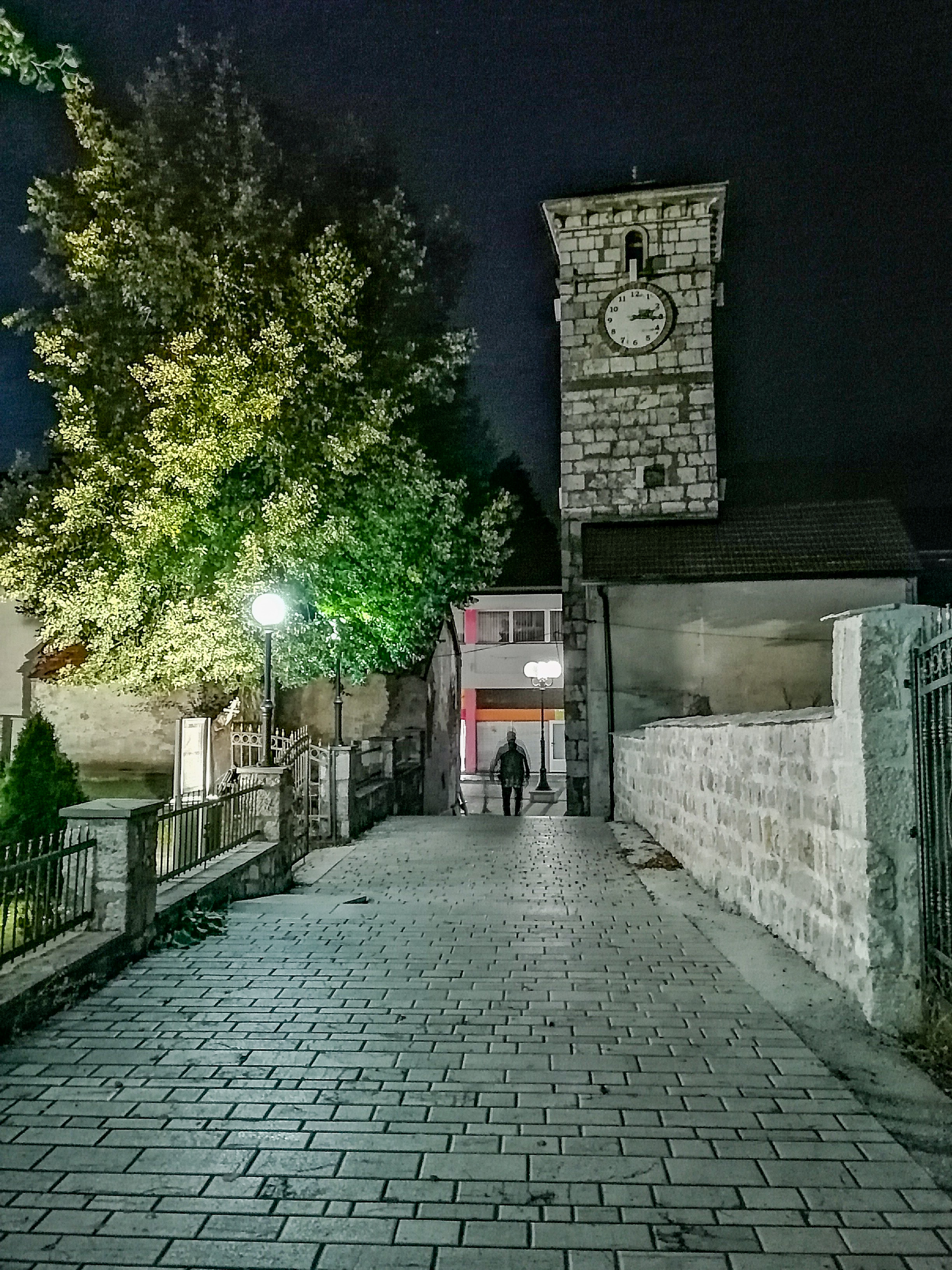 Srpski (latinica): Sahat kula, Nevesinje This image was uploaded as part of Trace of Soul 2019.